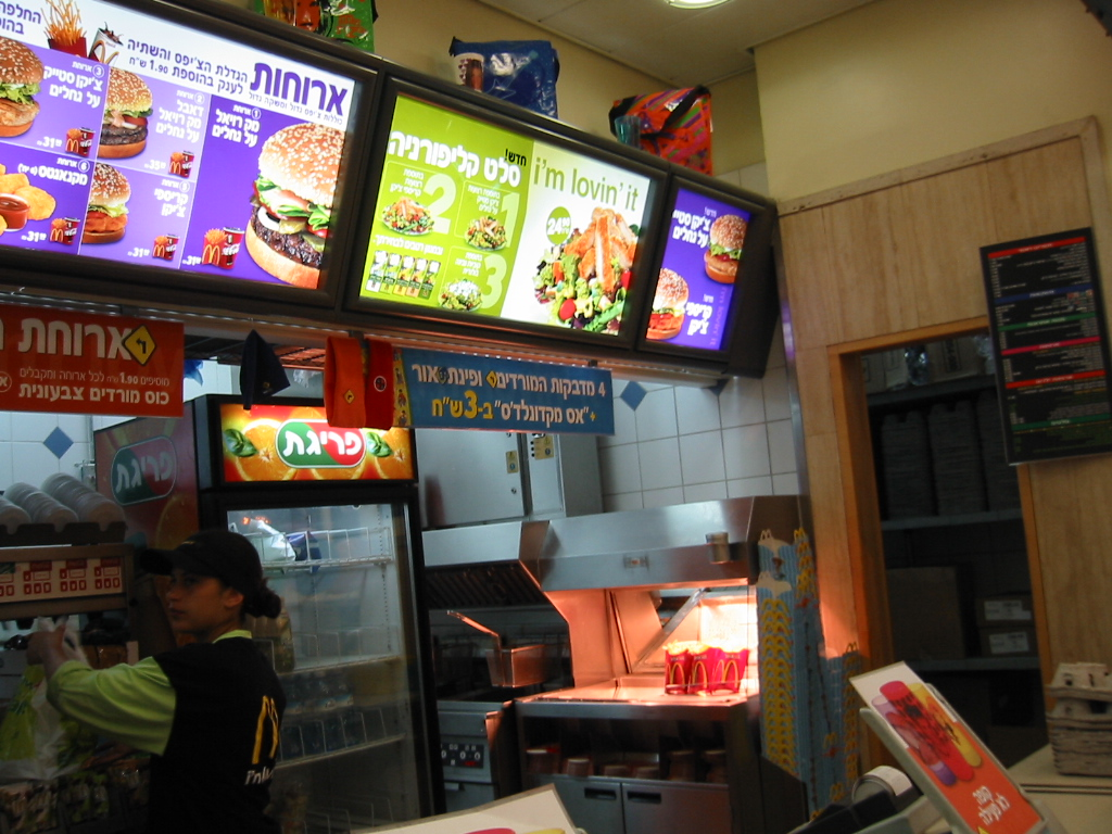 Israeli McDonalds. Globalization makes sure you get the same crappy food everywhere.